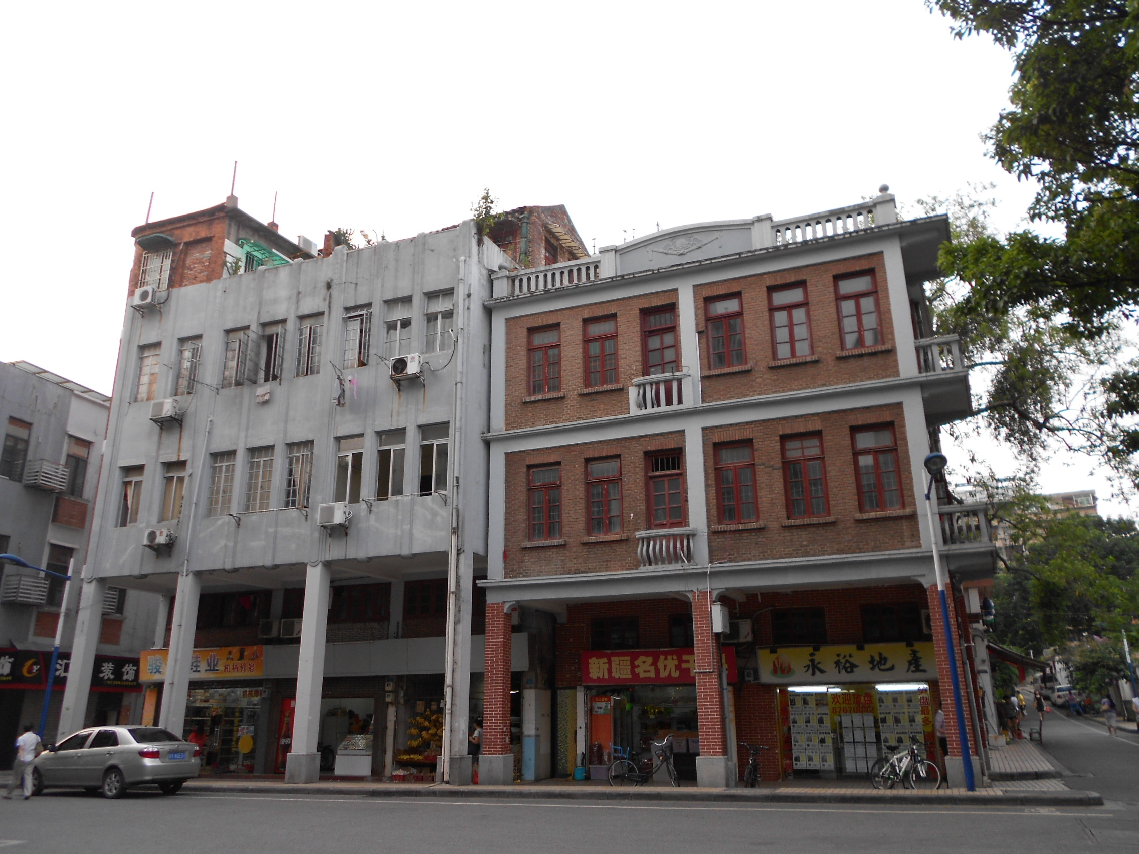 廣州東山光東前街。